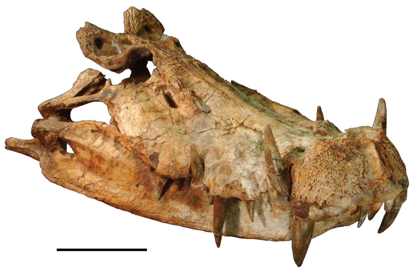 Skull of the crocodyliform Kaprosuchus saharicus (MNN IGU12). Scale bar equals 10 cm.